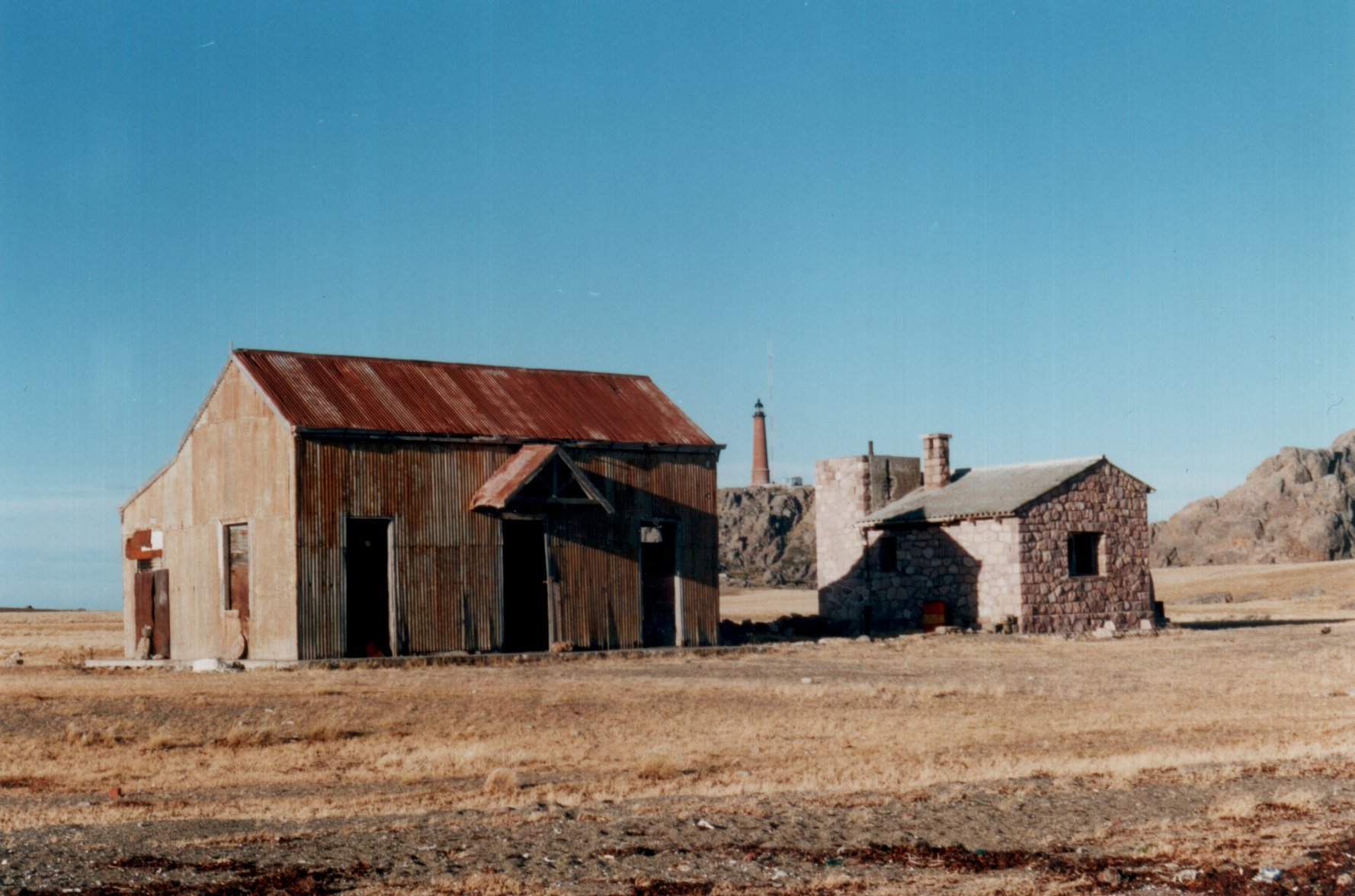 Abandon houses in Cabo Blanco (Santa Cruz, Argentina). Picture taken in january 2000.